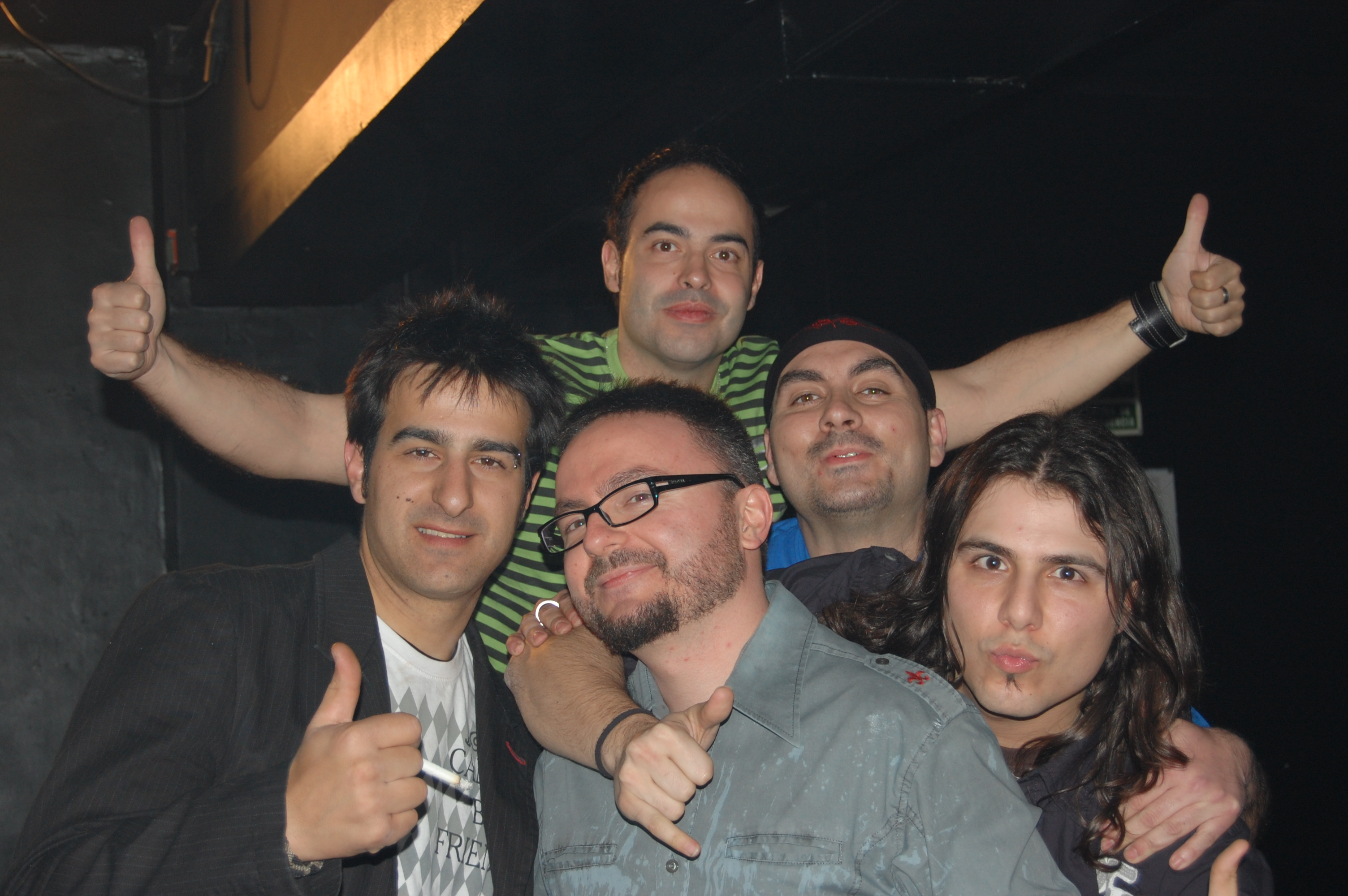 El Síndrome del Martes, 2008.